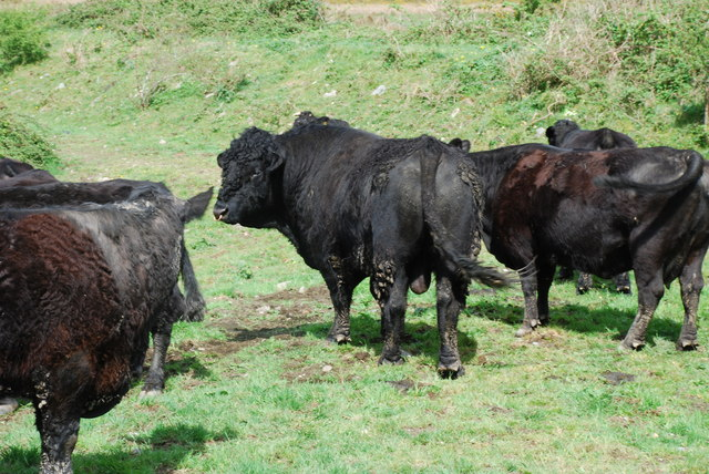 Tarw Du Cymreig - Welsh Black Bull Grazing at the approach to Penmaenpool toll-bridge.